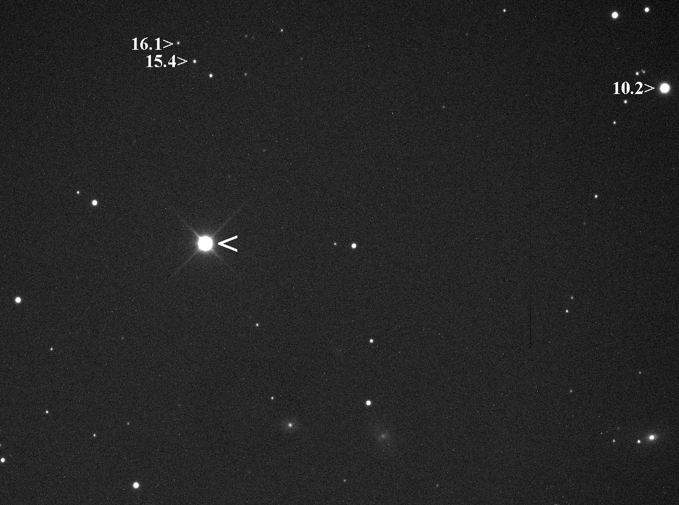 2 minute exposure of Nova Eridani 2009 with a 14" telescope at 2009-11-30 16:13 UT (2009-12-01 00:13 Pingelly time) in the constellation Eridanus. This image was taken with a 96% full moon nearby. The source of this He/N-class nova could be an apparent magnitude 15.35 star. In the upper right hand corner is the star HD 30437 at a known magnitude of 10.2. On 2009-11-28 the nova was estimated at magnitude 8.4. Other names for this nova are: 000-BJR-847, VSX J044754.2-101043, and N Eri 2009.